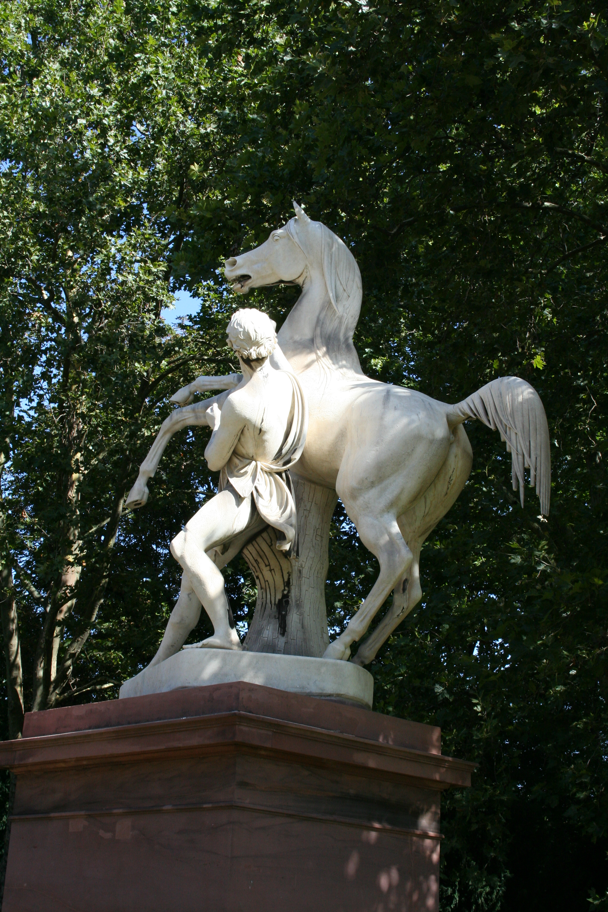 One of the horse tamer's group existing of two sculptures at the entrance of the plane tree avenue to the castle Rose stone in the lower castle garden in Stuttgart. Created from 1844 to 1847 from Carraramarmor of the court sculptor Ludwig von Hofer. Town district the Stuttgart east, Baden-Wurttemberg, Germany.